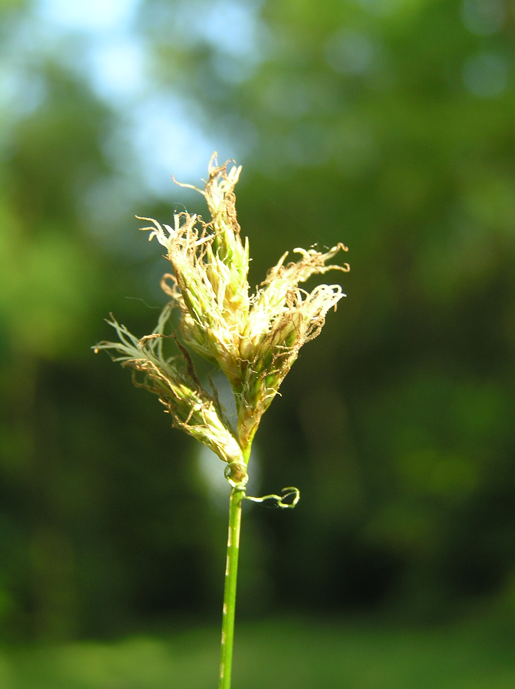 Carex curvata, Lanžhot, Southern Moravia, Czech Republic